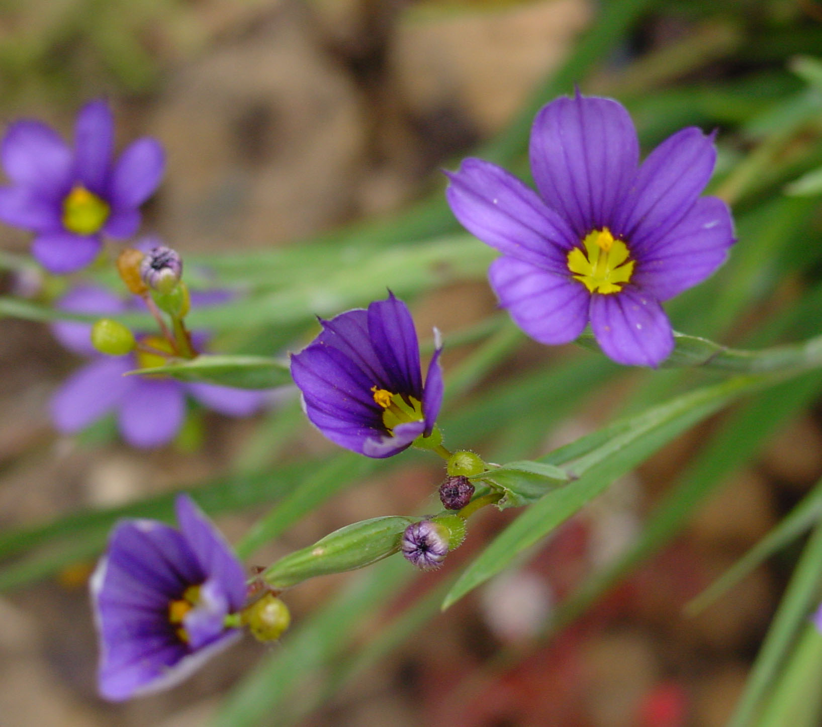 Bermudiana